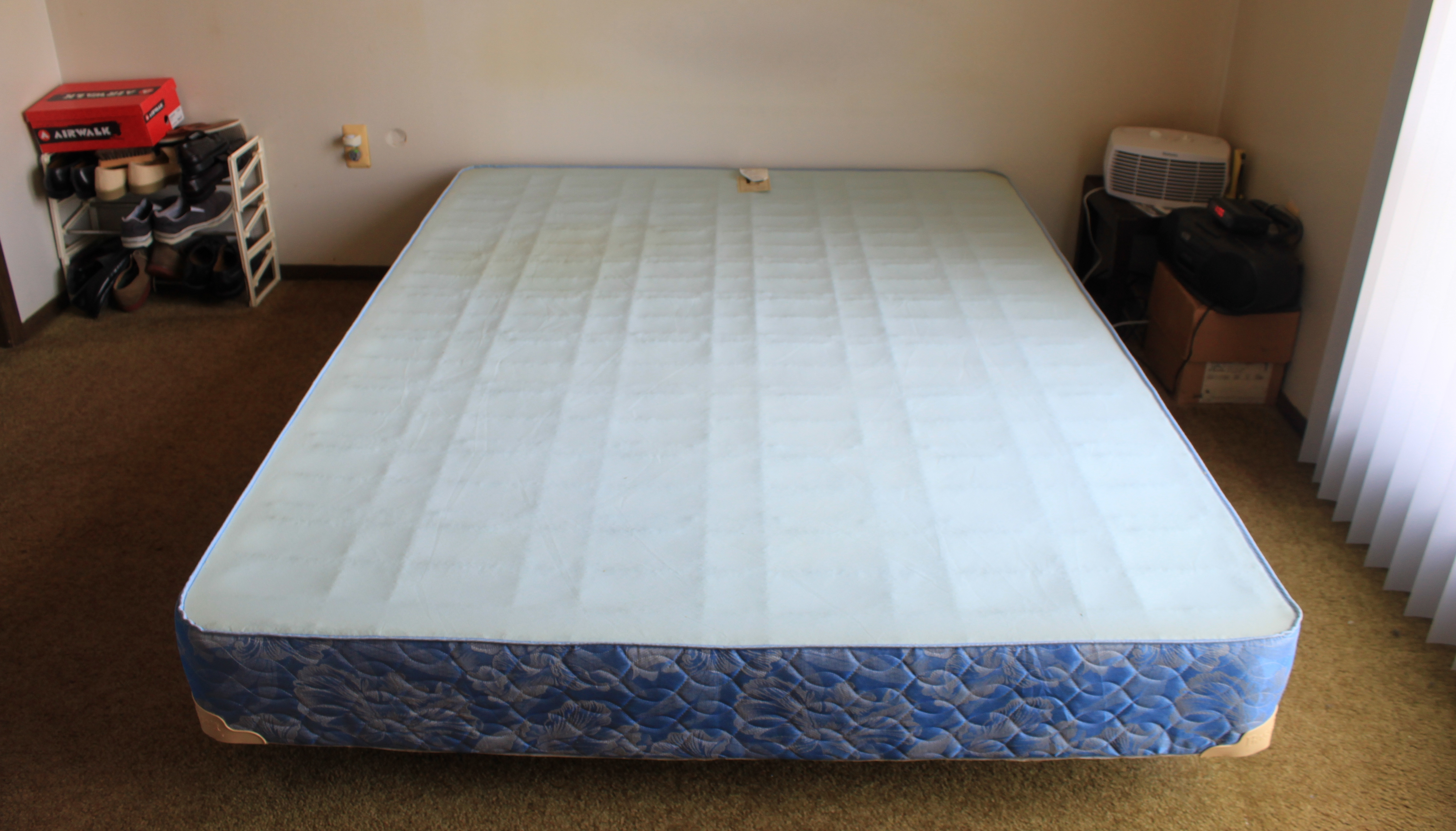 Bassett queen size box-spring on metal bed frame. Purchased in 1992.